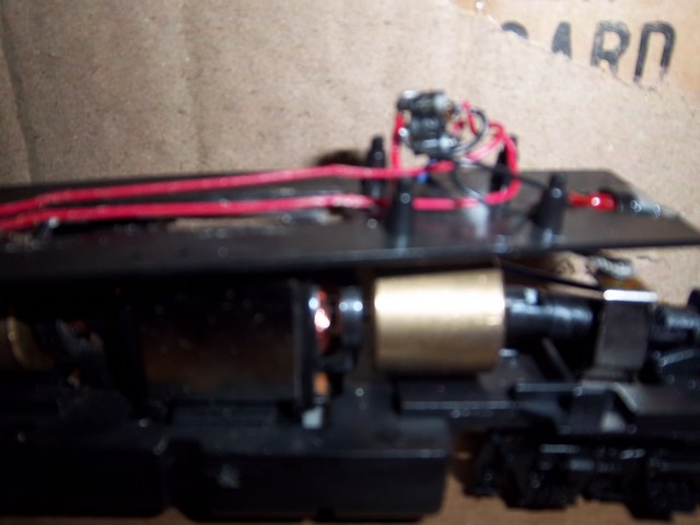 the wiring system inside the plastic box.